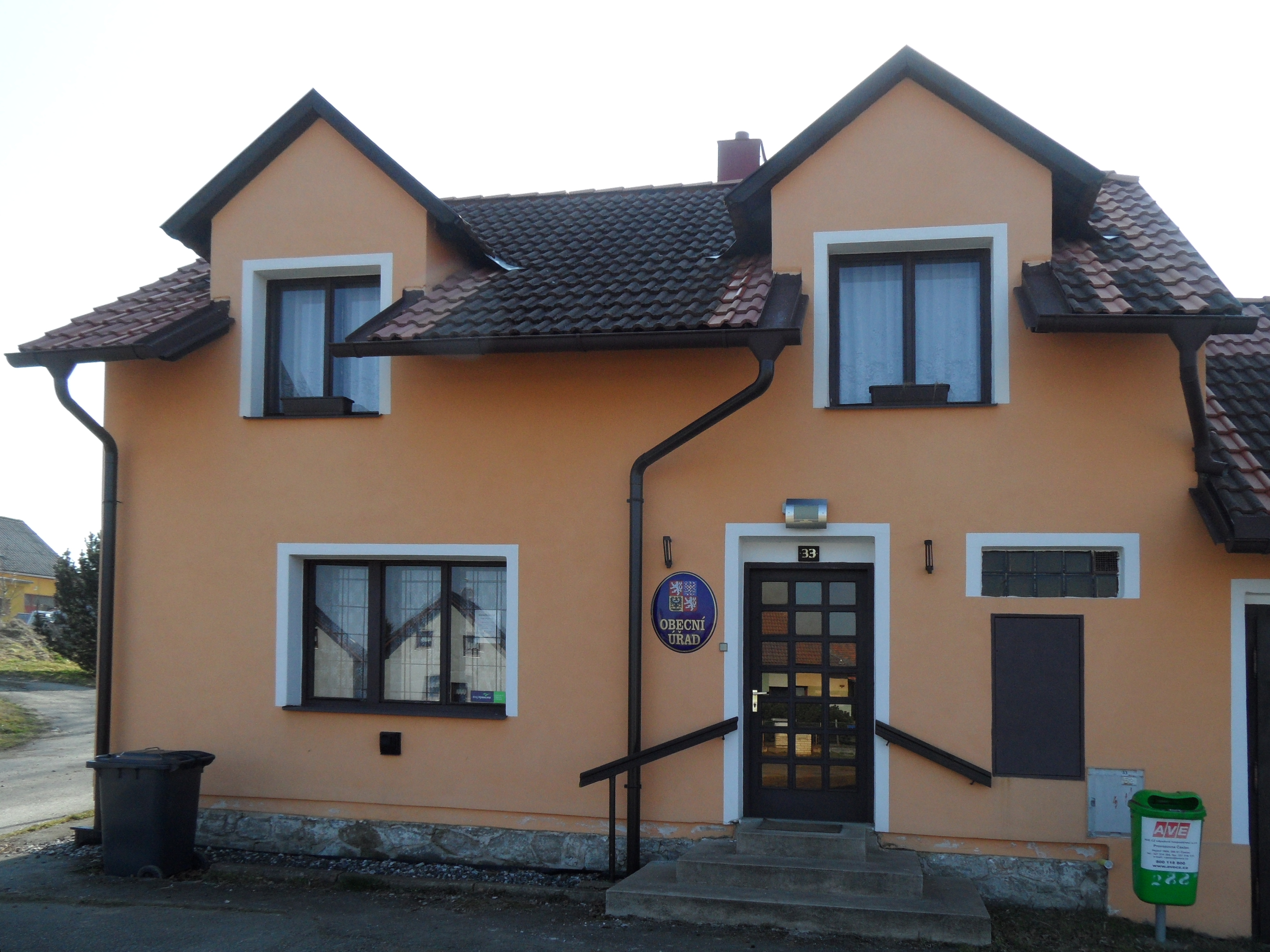 Nová Ves u Leštiny A. Building of Municipality Office. Havlíčkův Brod District, the Czech Republic.